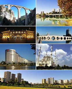 Collage of Adana